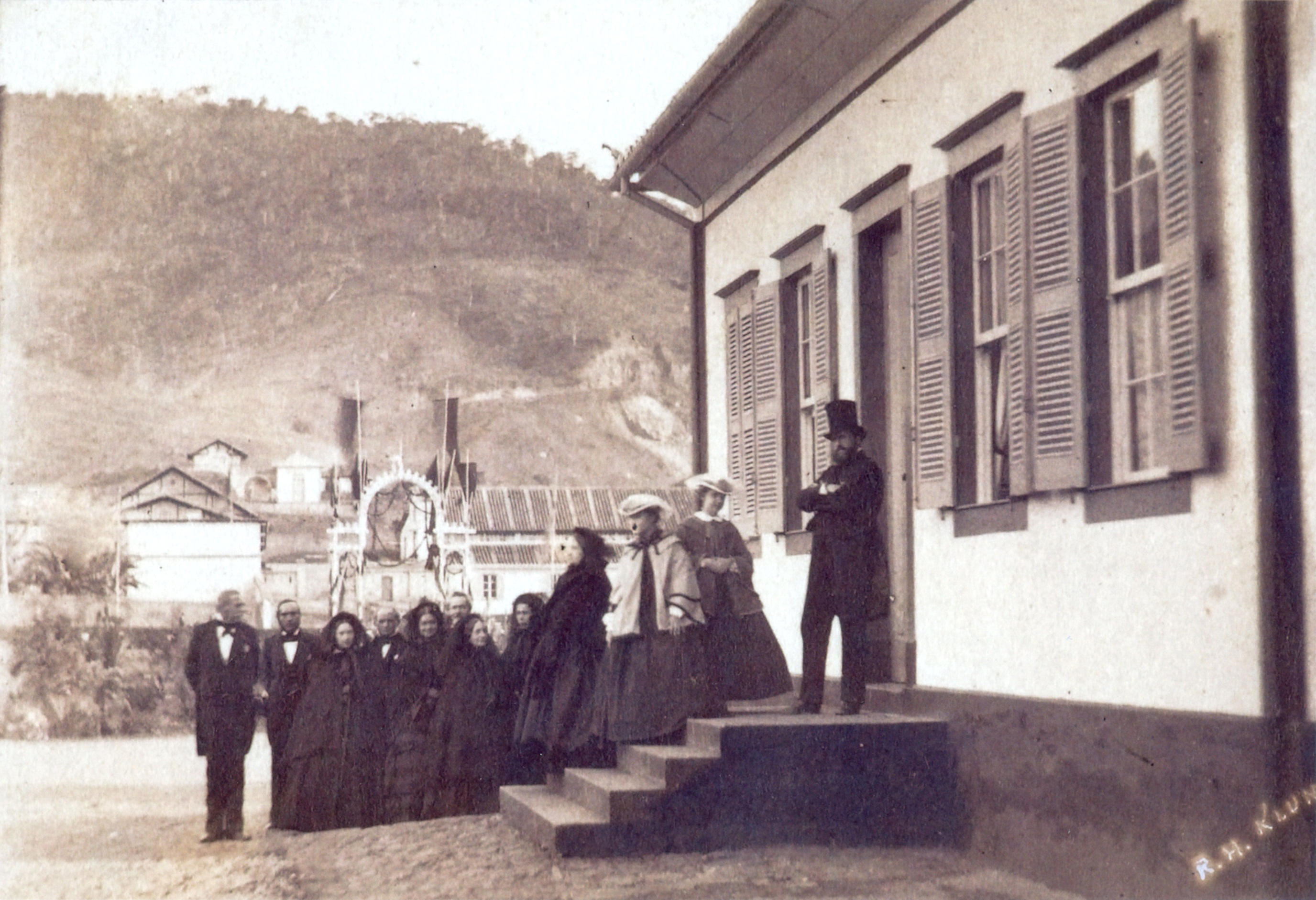 The Brazilian Imperial family visiting a farm in Juíz de Fora, southern Minas Gerais province, 1861.